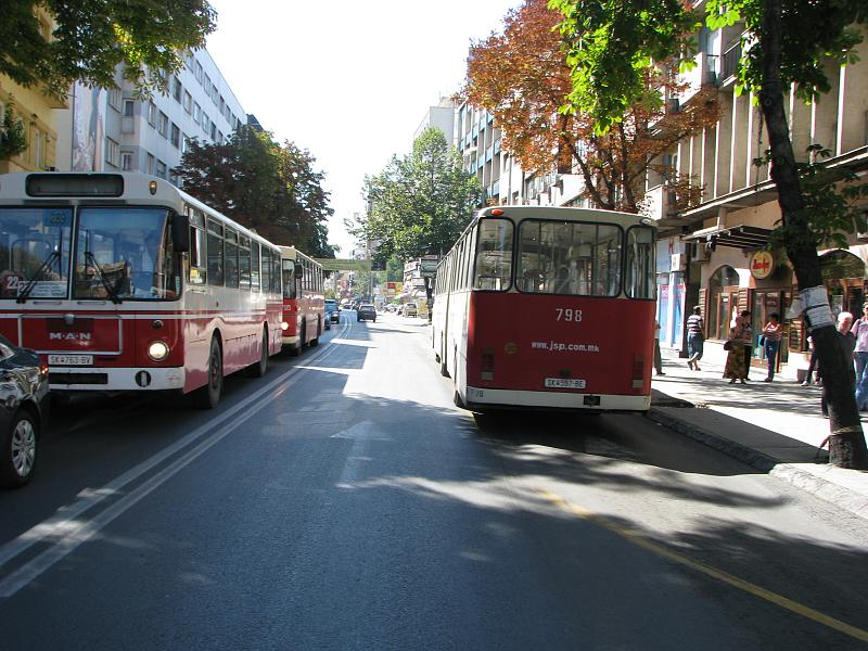 Buses in Skopje, Macedonia. MAN SL 200 (left front), Sanos S115 (left back), Sanos S200 (right)